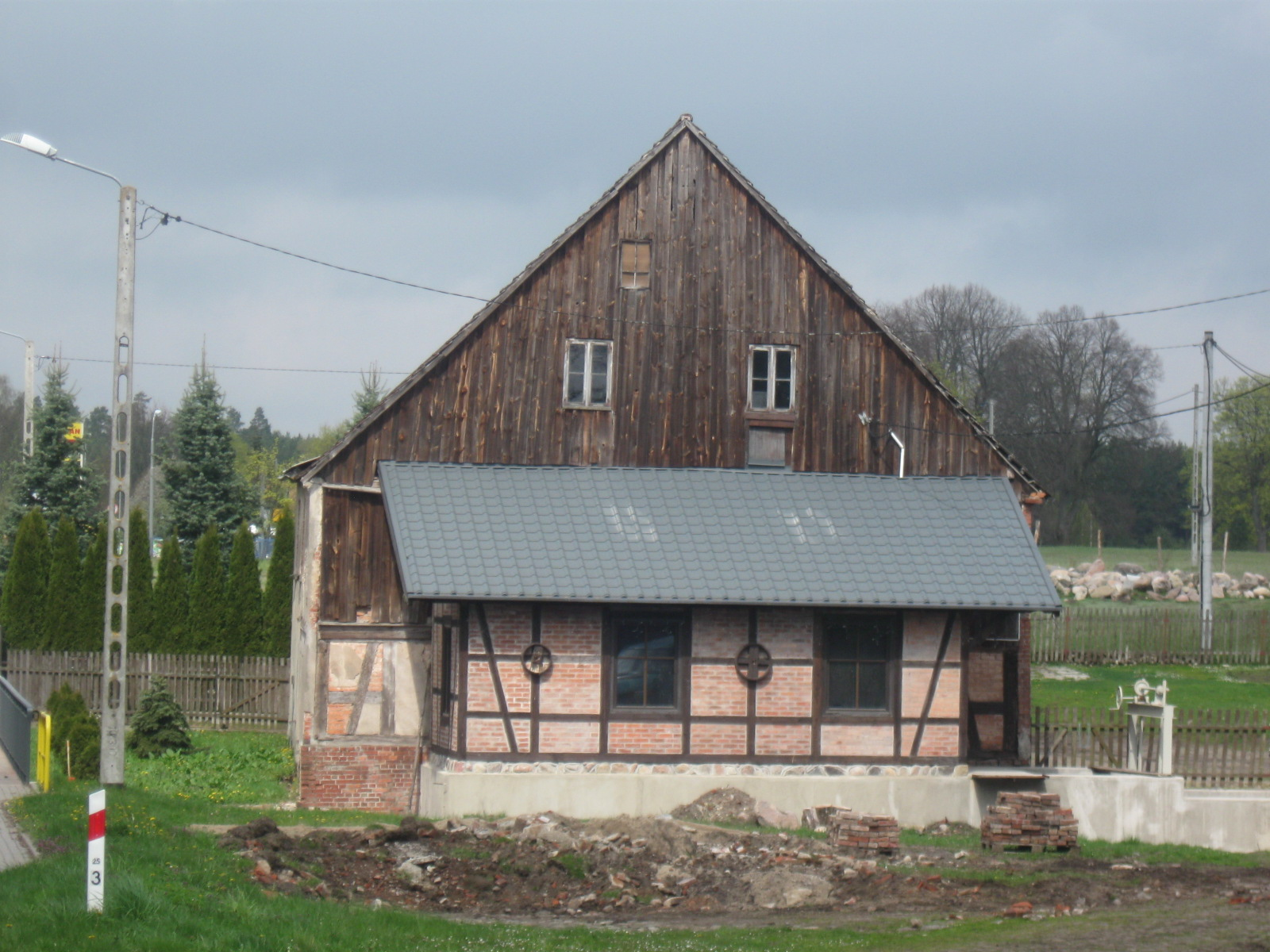 watermill